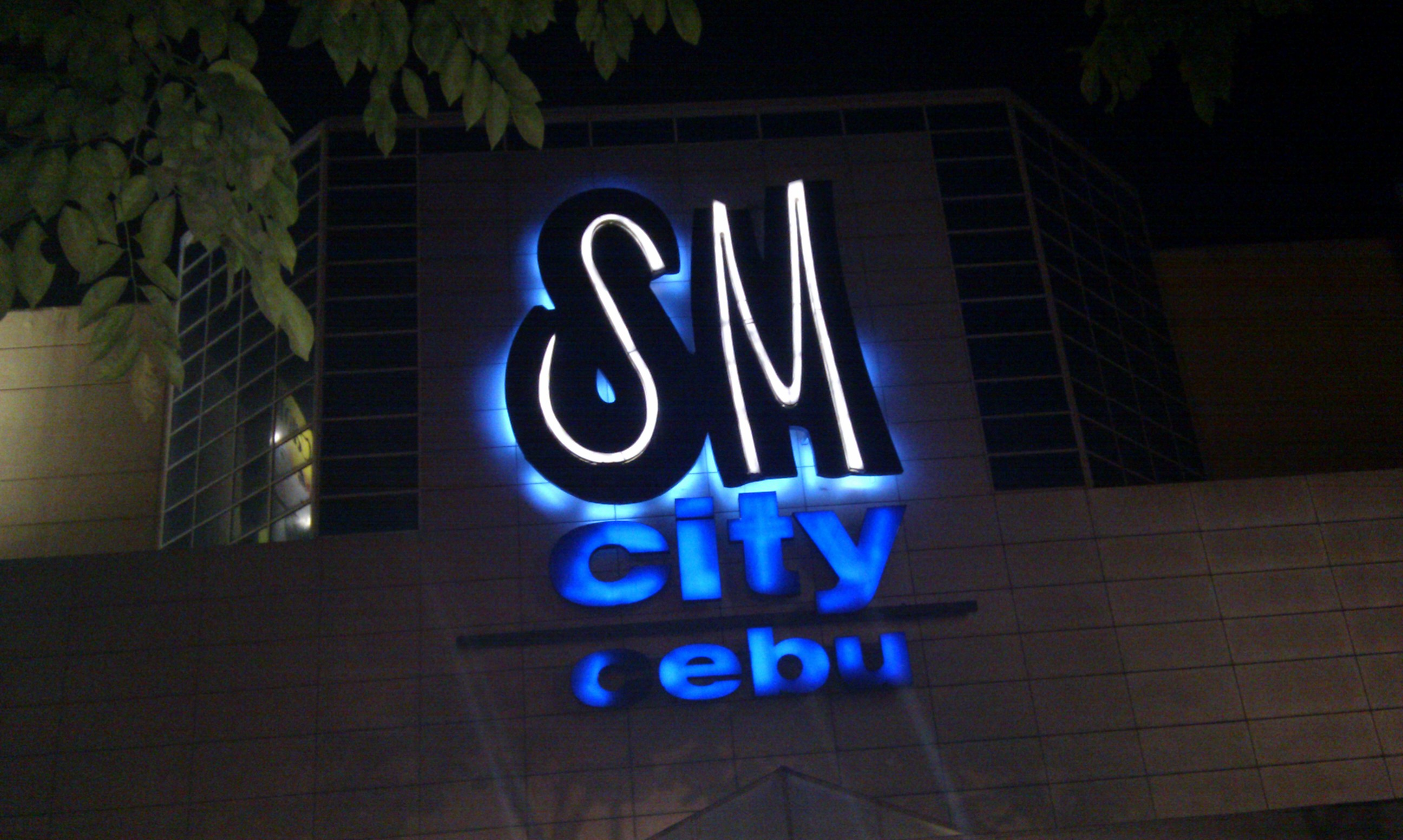 Picture of the exterior SM City Cebu sign